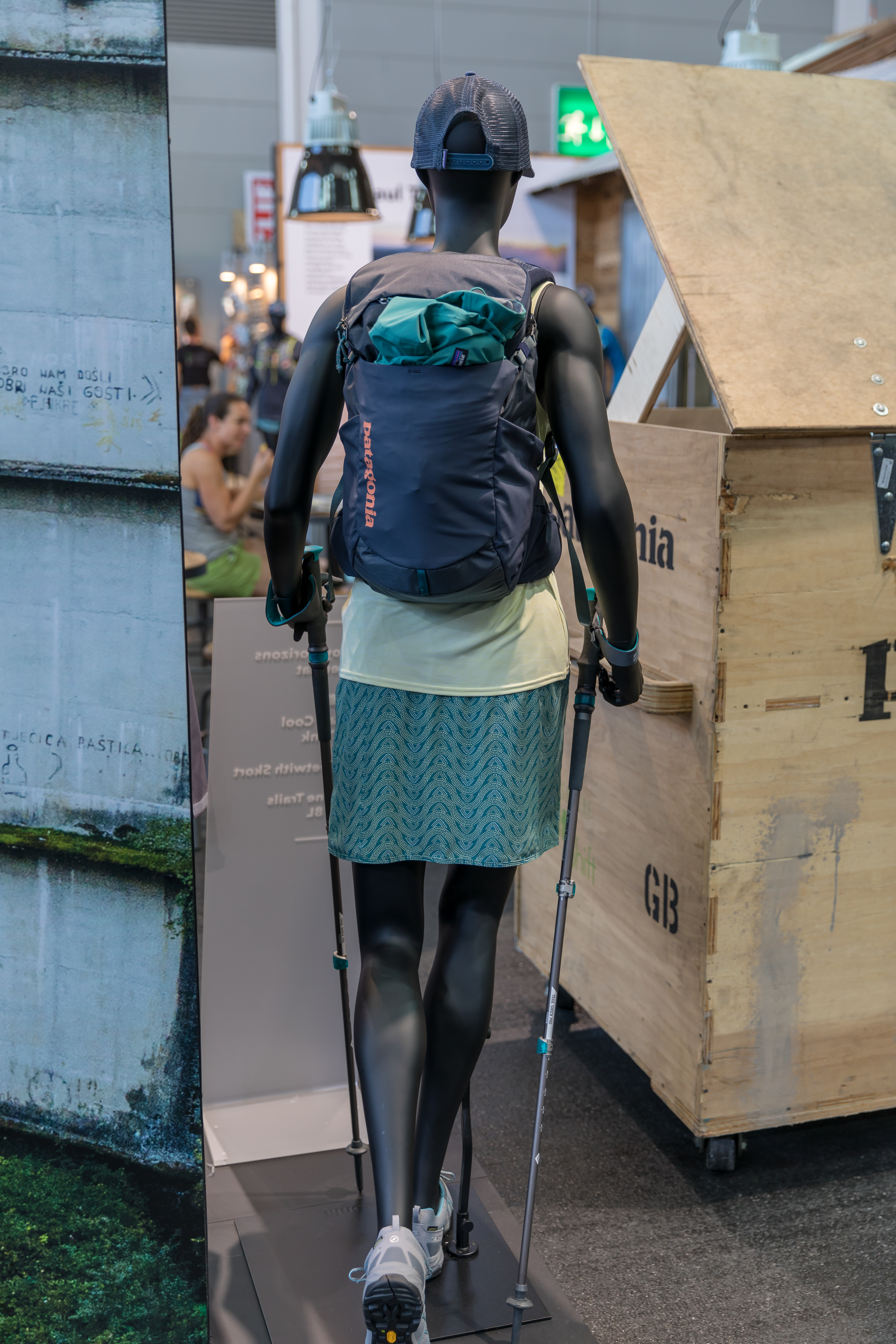 Mannequin in Patagonia clothing and backpack at press preview, OutDoor 2018